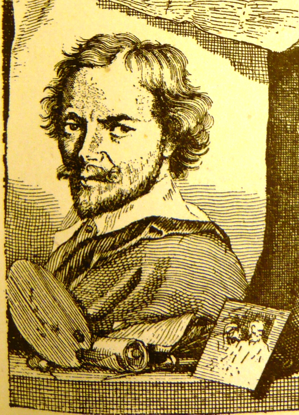 Dirk van Hoogstraten (1596-1640), Dutch/Flemish painter from Dordrecht born in Antwerp